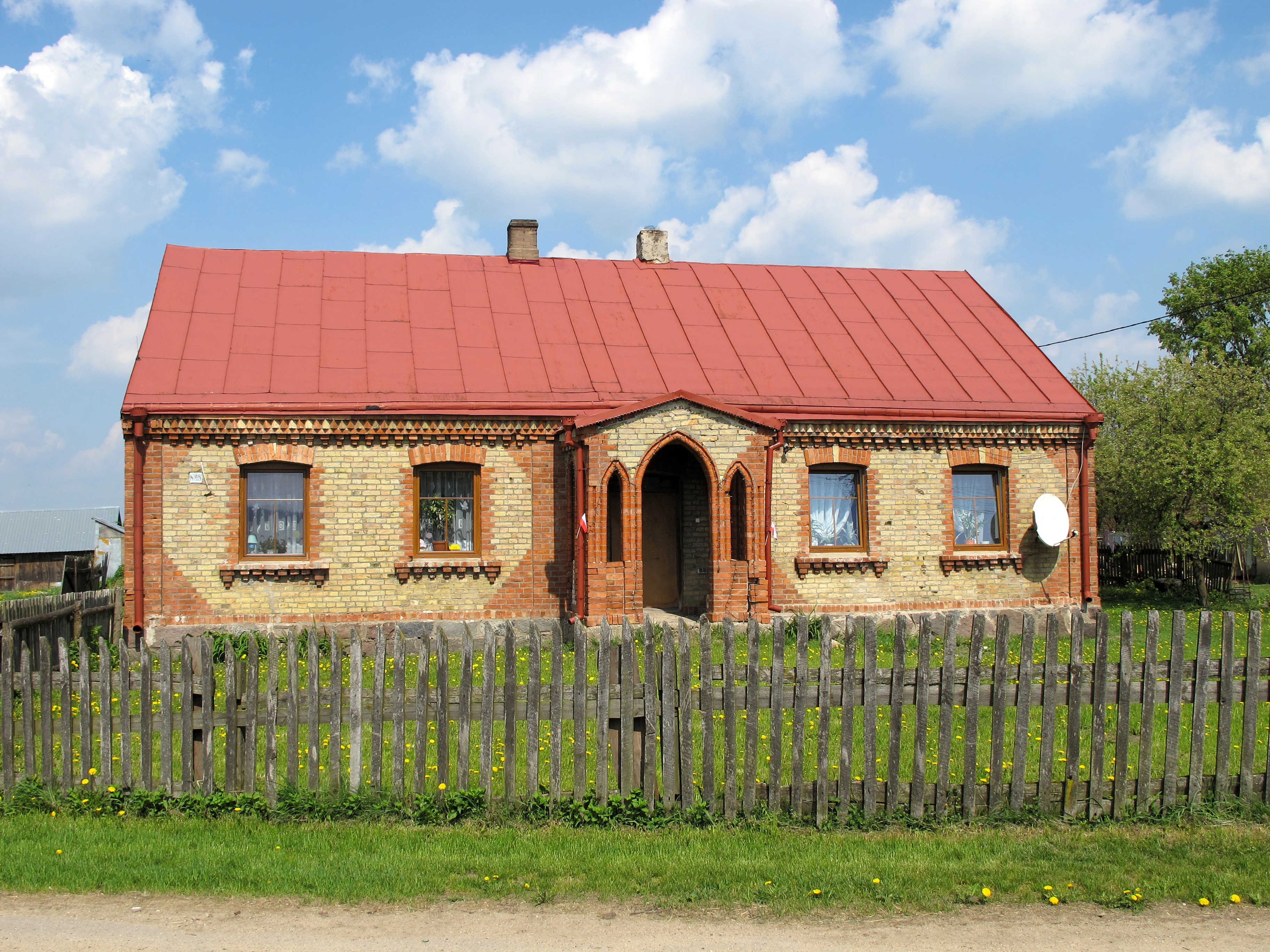 House in Jeńki village, gmina Sokoły, podlaskie, Poland